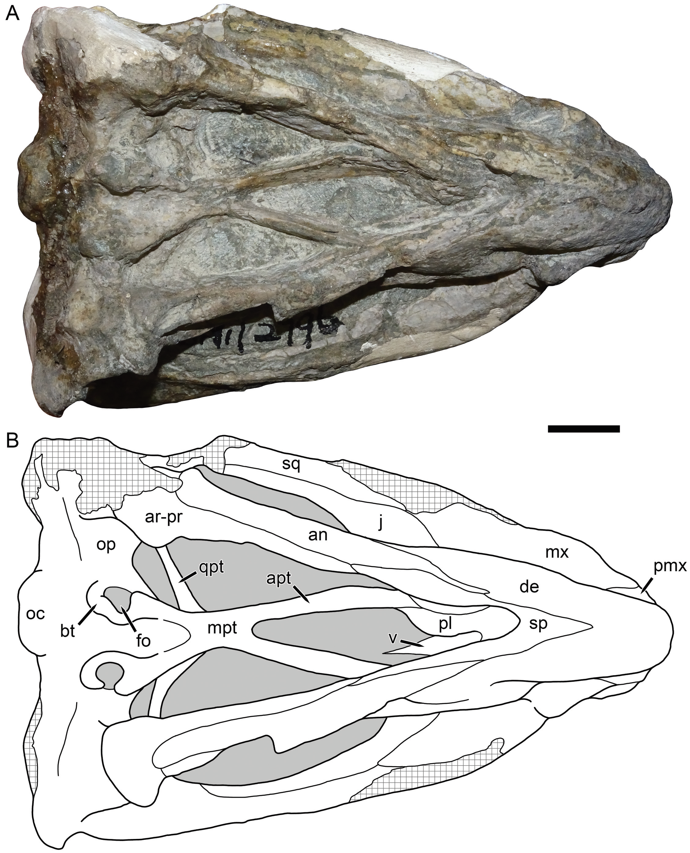 Holotype of Thliptosaurus imperforatus (BP/1/2796) in ventral view: A, photograph; B, interpretive drawing (grey indicates matrix, hatching indicates plaster reconstruction). an, angular; apt, anterior pterygoid ramus; ar-pr, articular-prearticular complex; bt, basal tuber; de, dentary; fo, fenestra ovalis; j, jugal; mpt, median pterygoid plate; mx, maxilla; oc, occipital condyle; op, opisthotic; pl, palatine; pmx, premaxilla; qpt, quadrate pterygoid ramus; sp, splenial; sq, squamosal; v, vomer. Scale bar equals 1 cm.